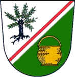 Coat of Arms of Korbußen